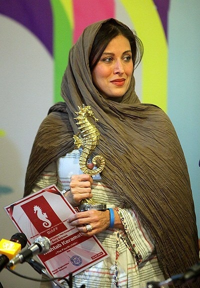 Mahtab Keramati, Children's cinema review meeting in Tehran (13920719093713525) full gallery